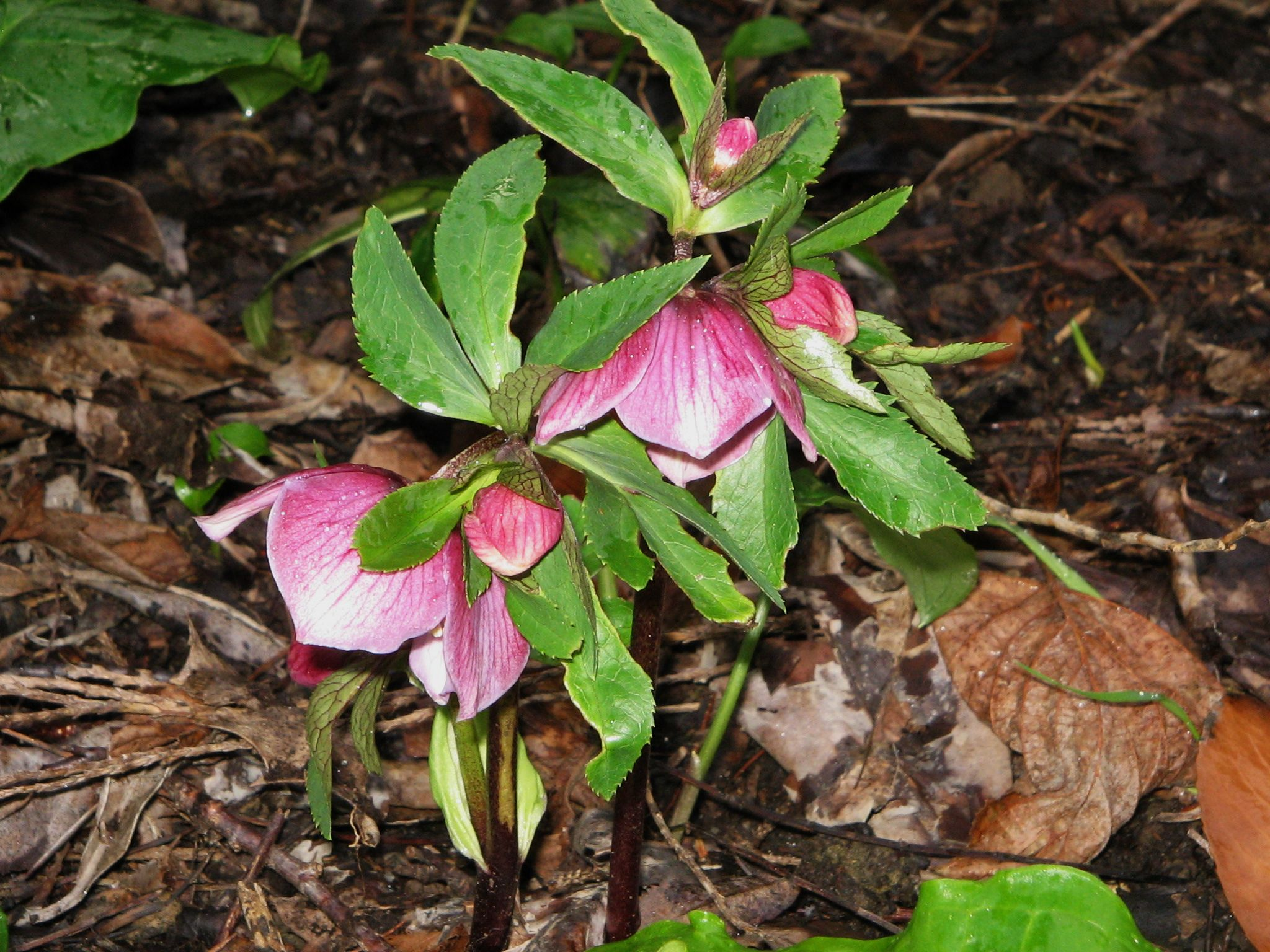 Helleborus orientalis subsp. abchasicus